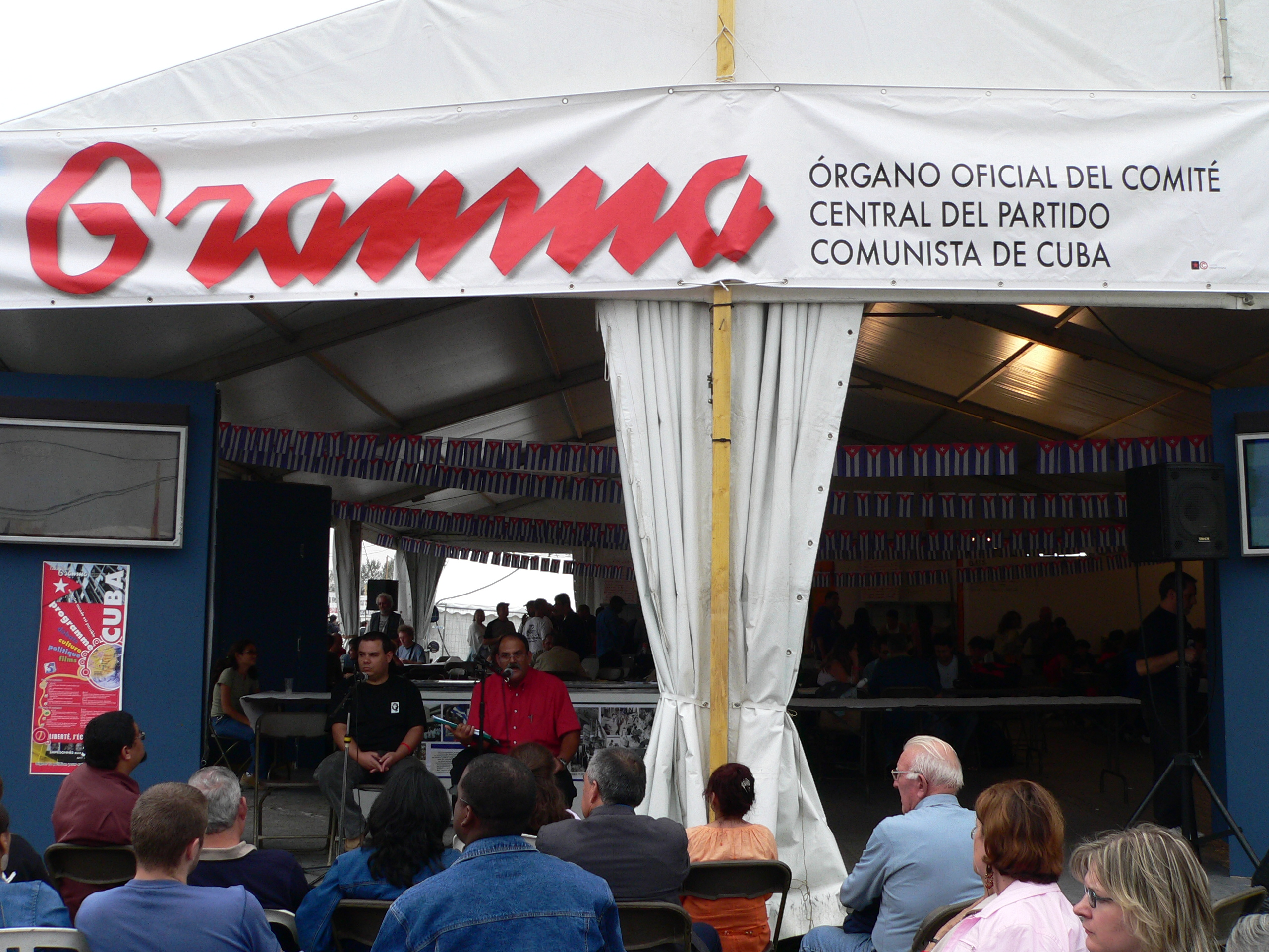 Delegation from Granma, official newspaper of the central committee of the Communist party of Cuba